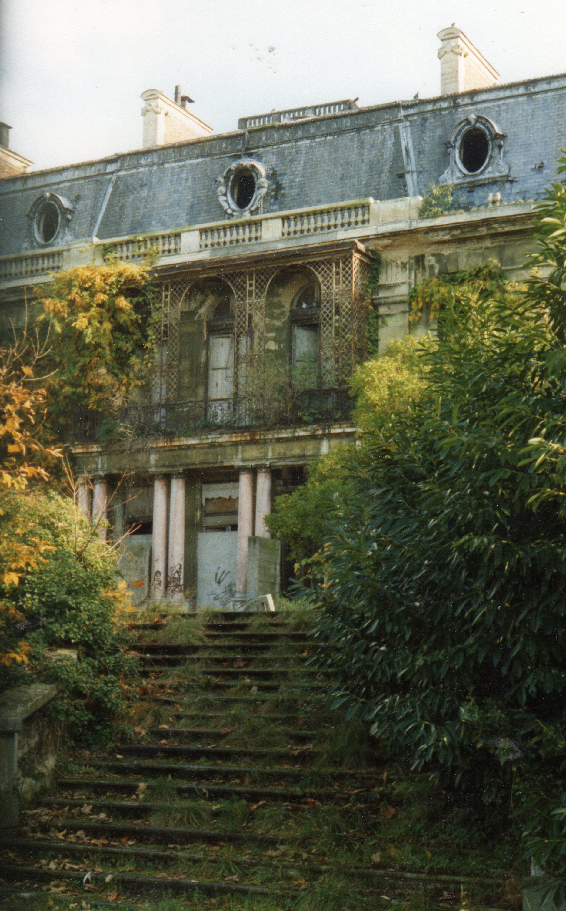 Old Rothschild Palace in Boulogne-Billancourt